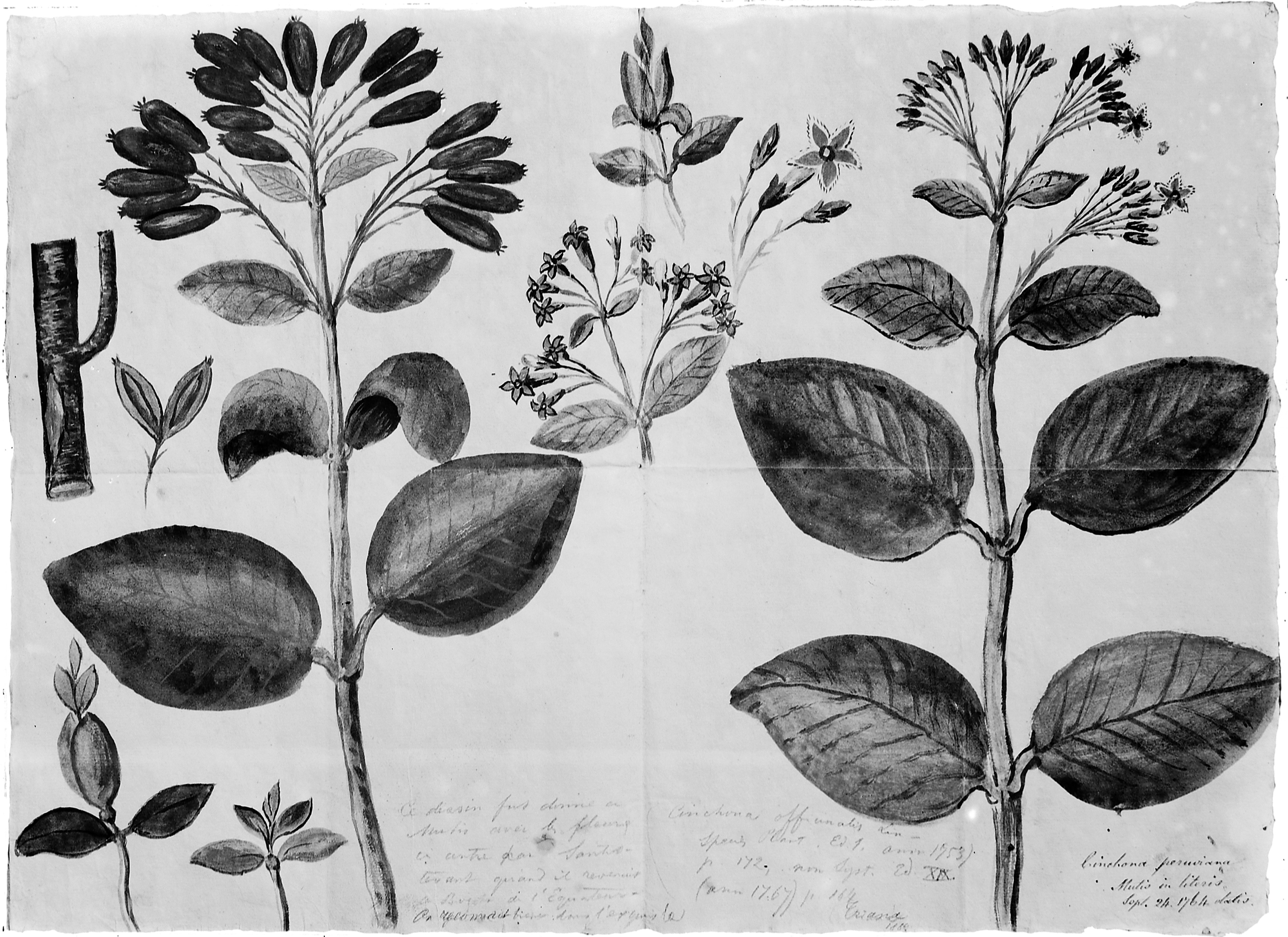 Cinchona Peruviana. Photograph of watercolour sent by mutis to Linnaeus, 24 September 1764. Wellcome Images Keywords: Cinchona